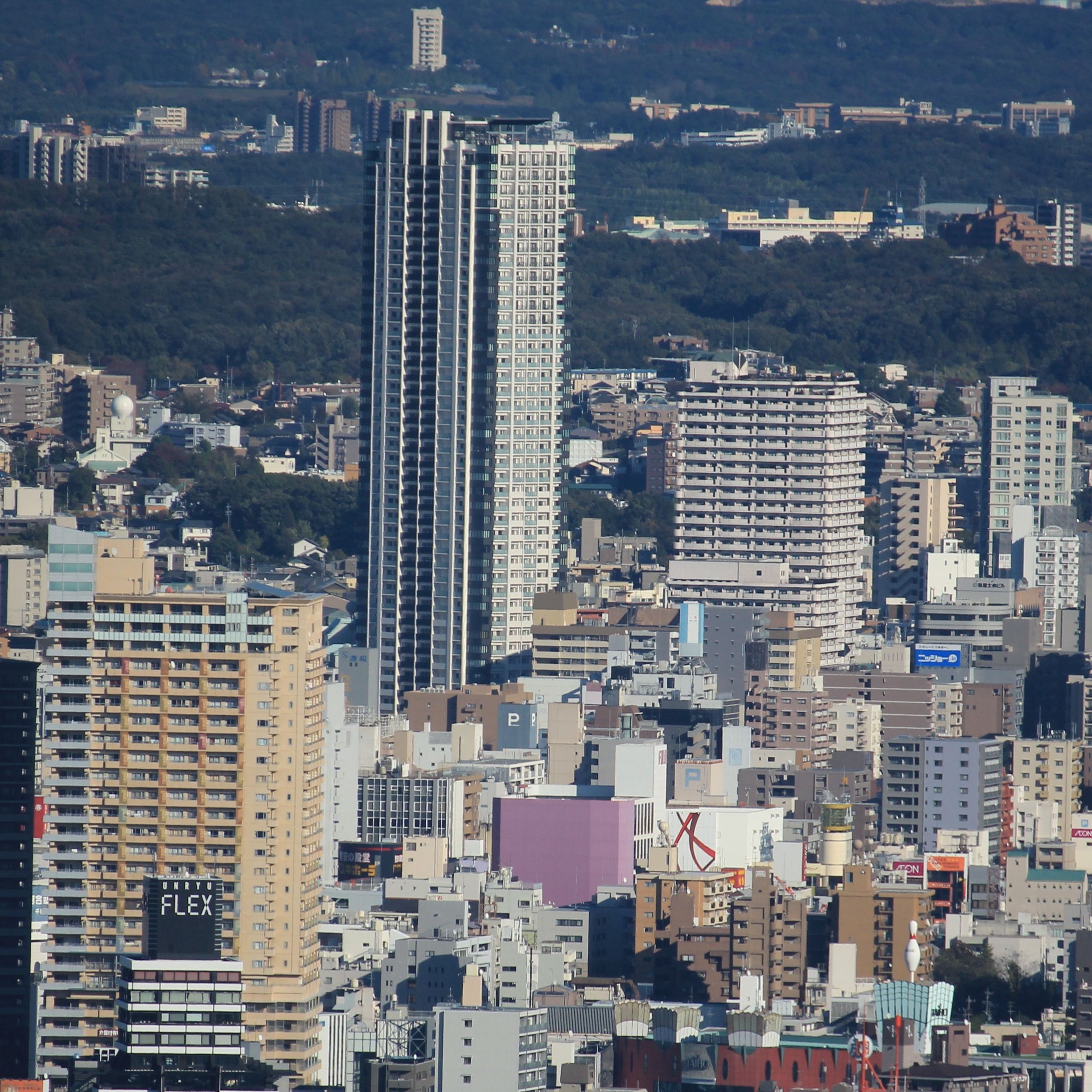 Aqua Town Nayabashi, Grande maison Ikeshita the tower and SUNCREA Ikeshita seen from Midland Square in Nagoya, Aichi prefecture, Japan.